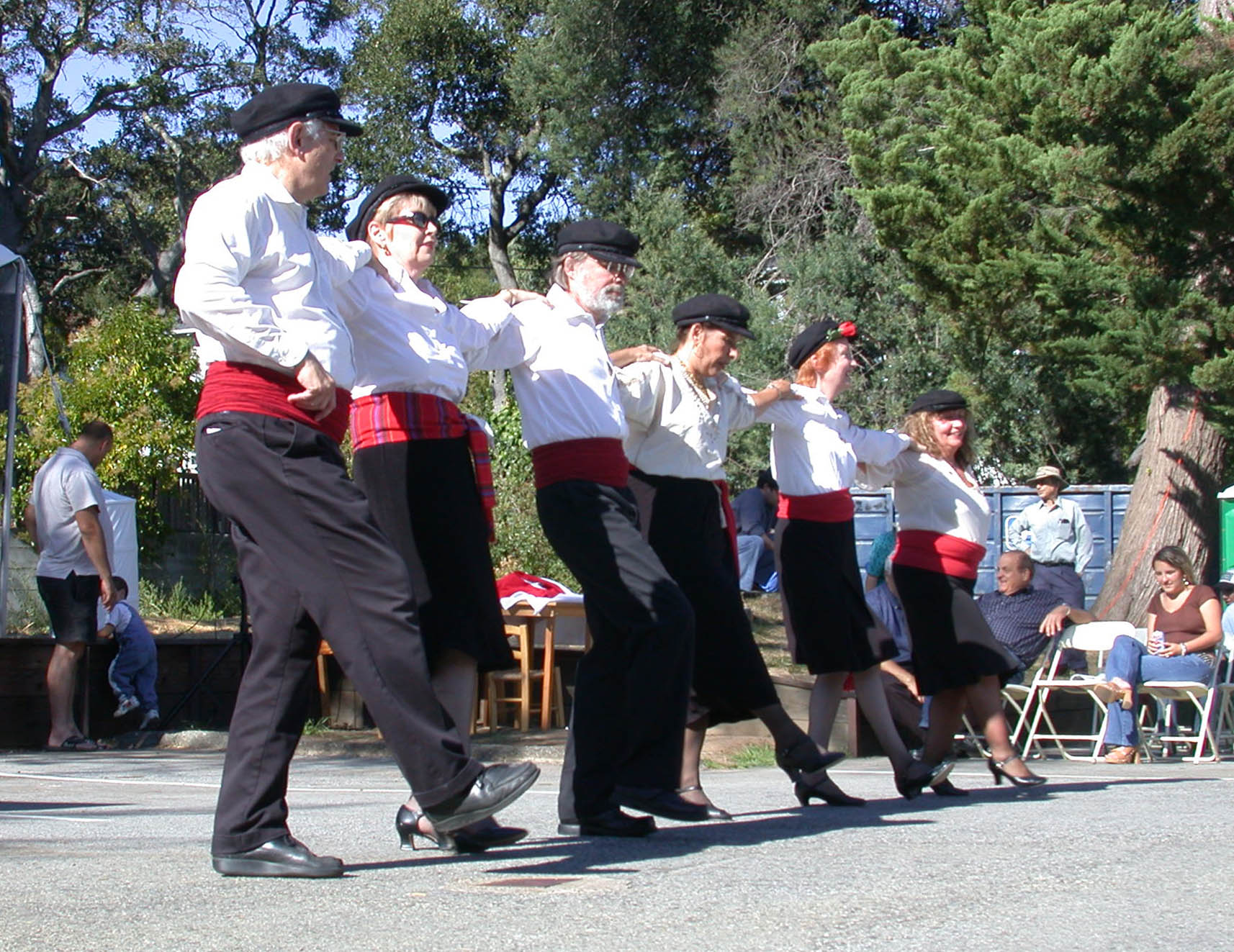 People performing a Greek line dance at the Greek festival in Belmont, California.